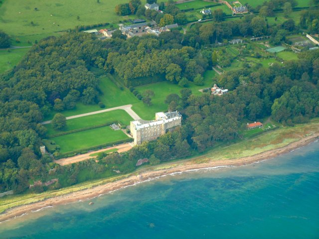 Wemyss Castle and Gardens Seen from above the Firth of Forth.